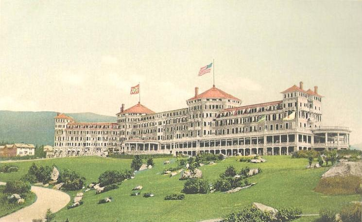 The Mount Washington Hotel, Bretton Woods, White Mountains, New Hampshire